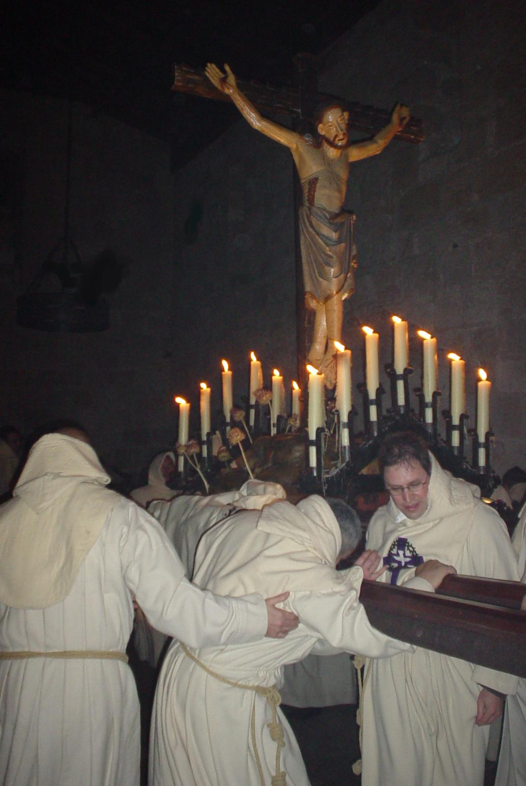 Cristo del Espíritu Santo in procession all the Holy Fridays before the Passion Week in Zamora, Spain.